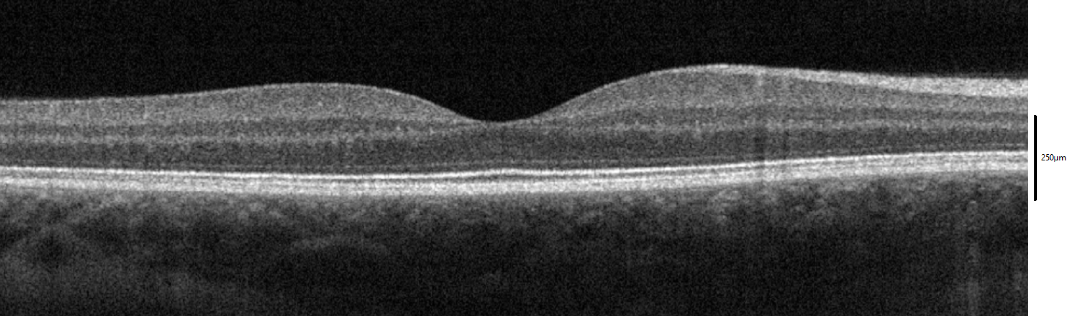 The healthy macula of a 24 year old male (cross-section view). This image is released to Wikimedia with patient consent. Imaged in-vivo with an Optovue iVue Spectral Domain Optical Coherence Tomographer (SD-OCT) at the office of Drs. Harry Wiessner, Steven Davis, Daniel Wiessner, and Eric Wiessner in Walla Walla, WA, USA.